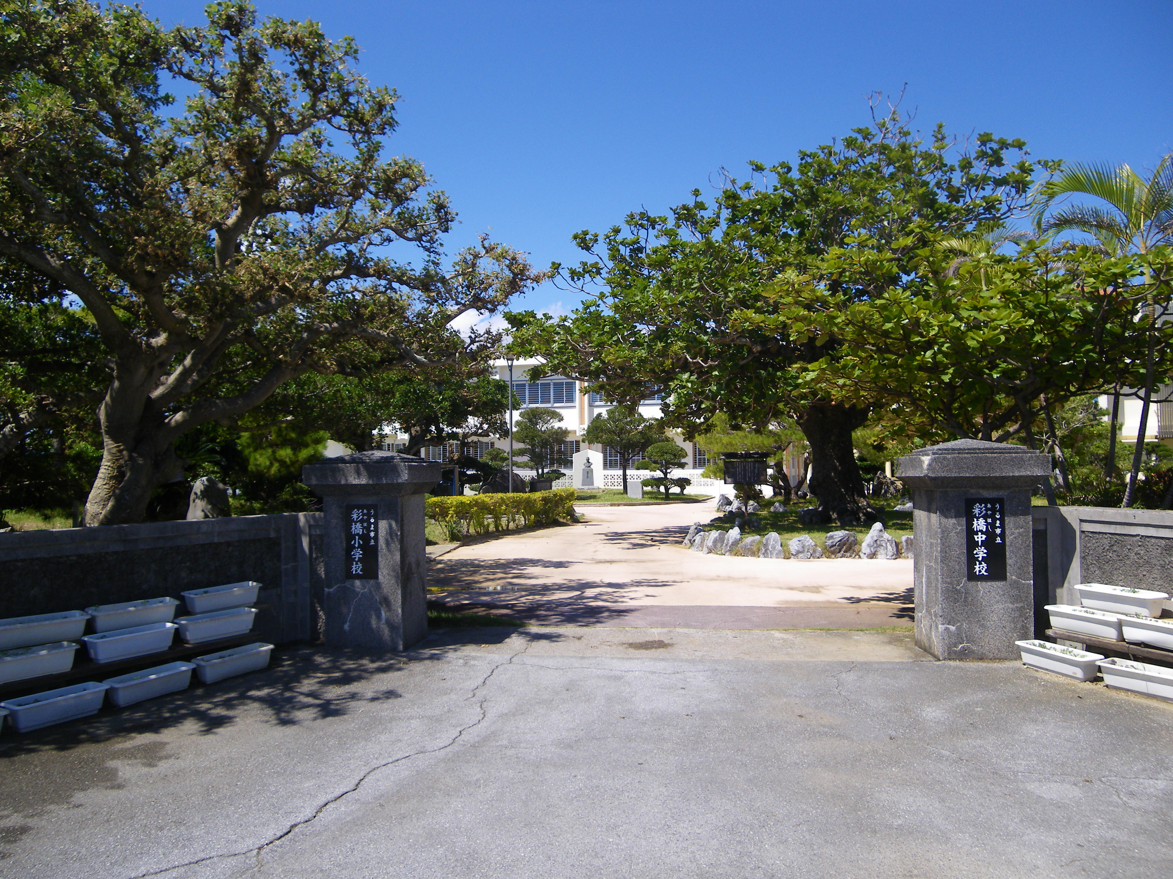 Ayahashi Elementary and Junior High School